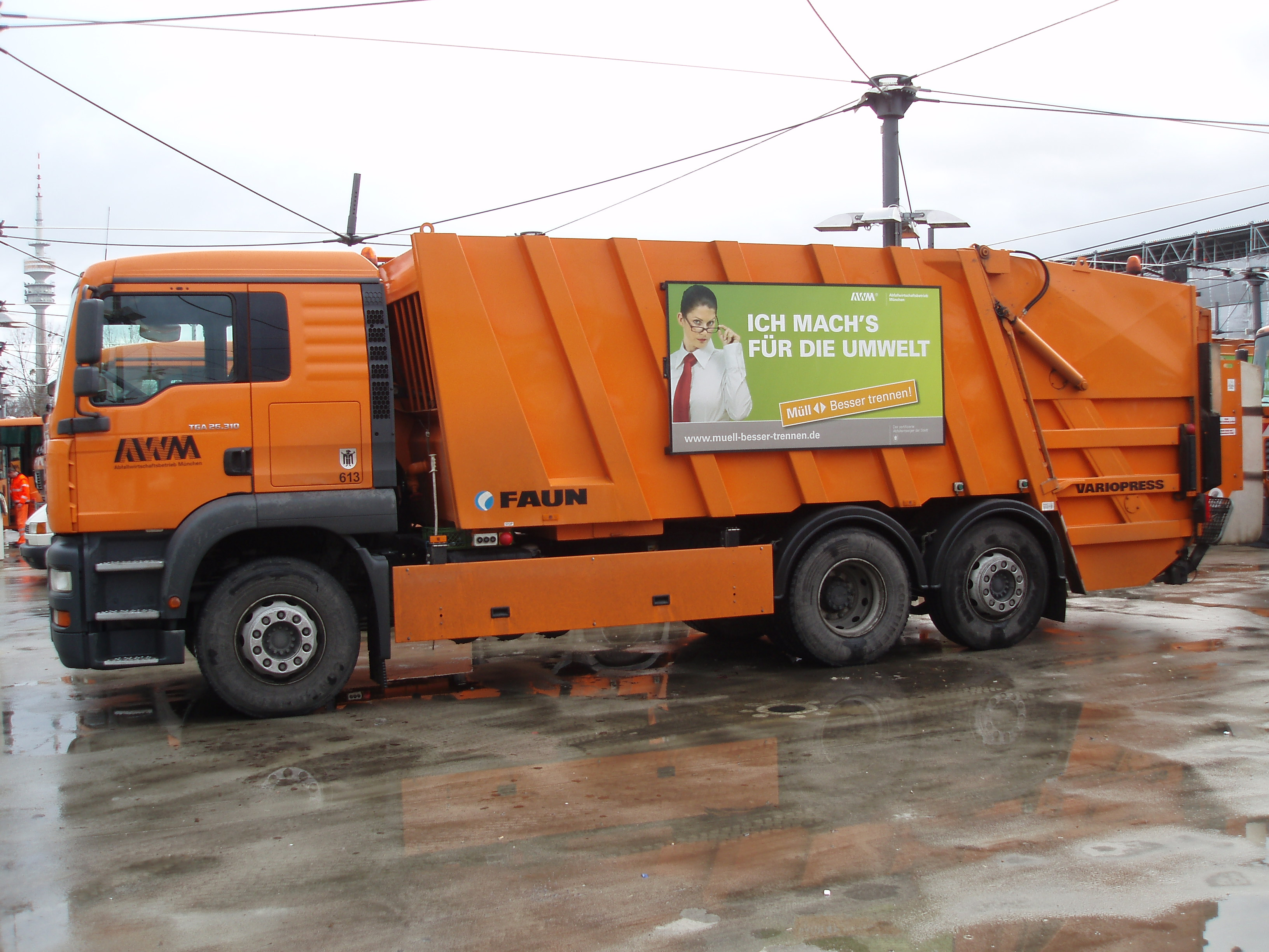 Muncich municipal waste disposal company, garbage truck MAN TGA 26.310